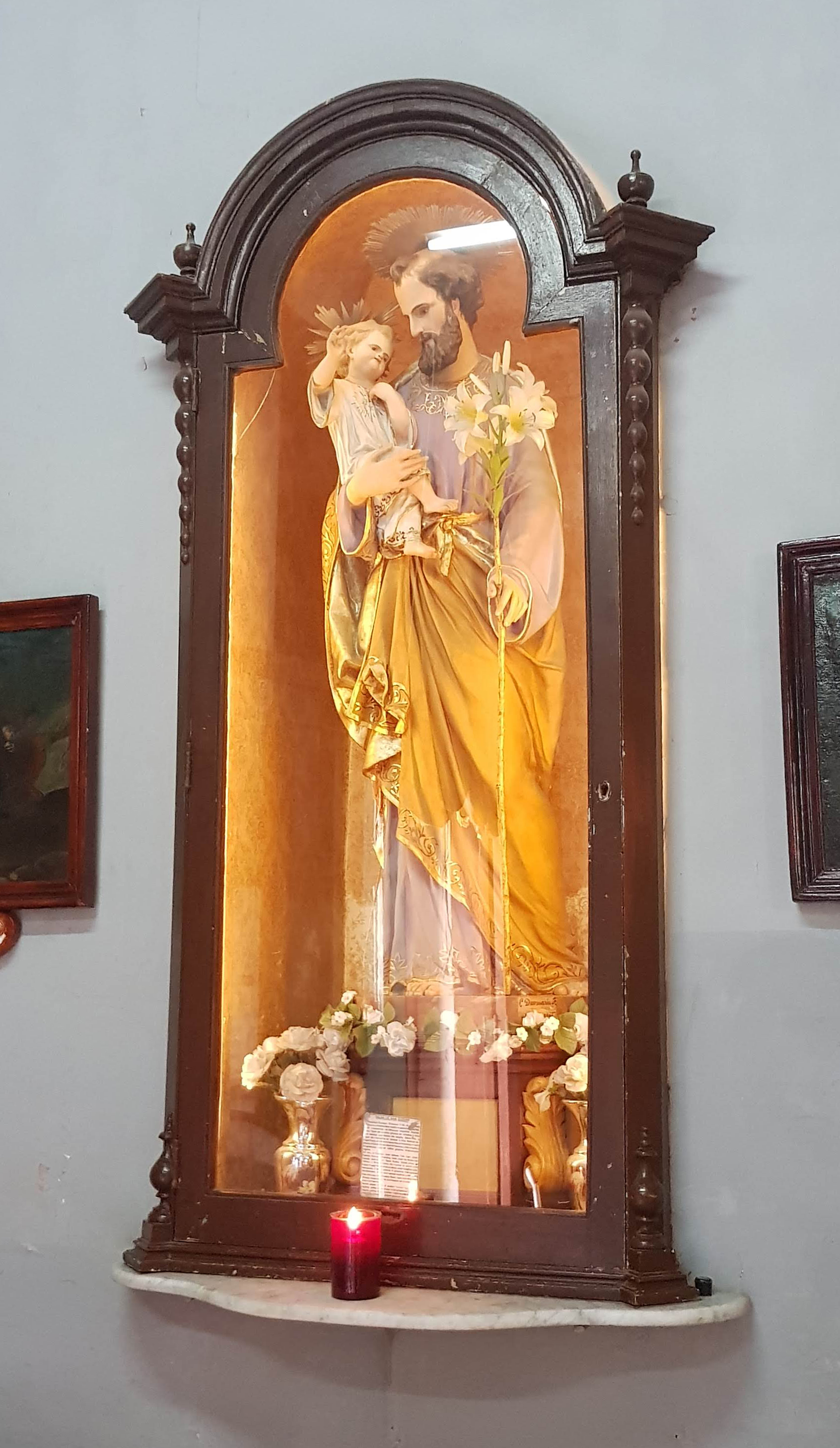 Statue of St. Joseph inside the Old Parish Church of St. Venera in St. Venera Square, Santa Venera, Malta This media is about Maltese cultural property with inventory number 00199.